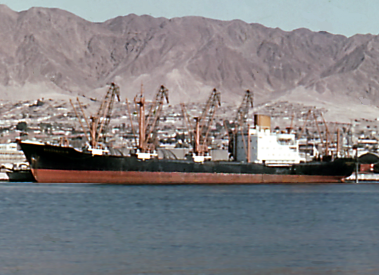 MS Buchenstein from the North German Lloyd Bremen, a cargo ship of the Burgenstein-class 1963 in the Chilenian port of Antofagasta.